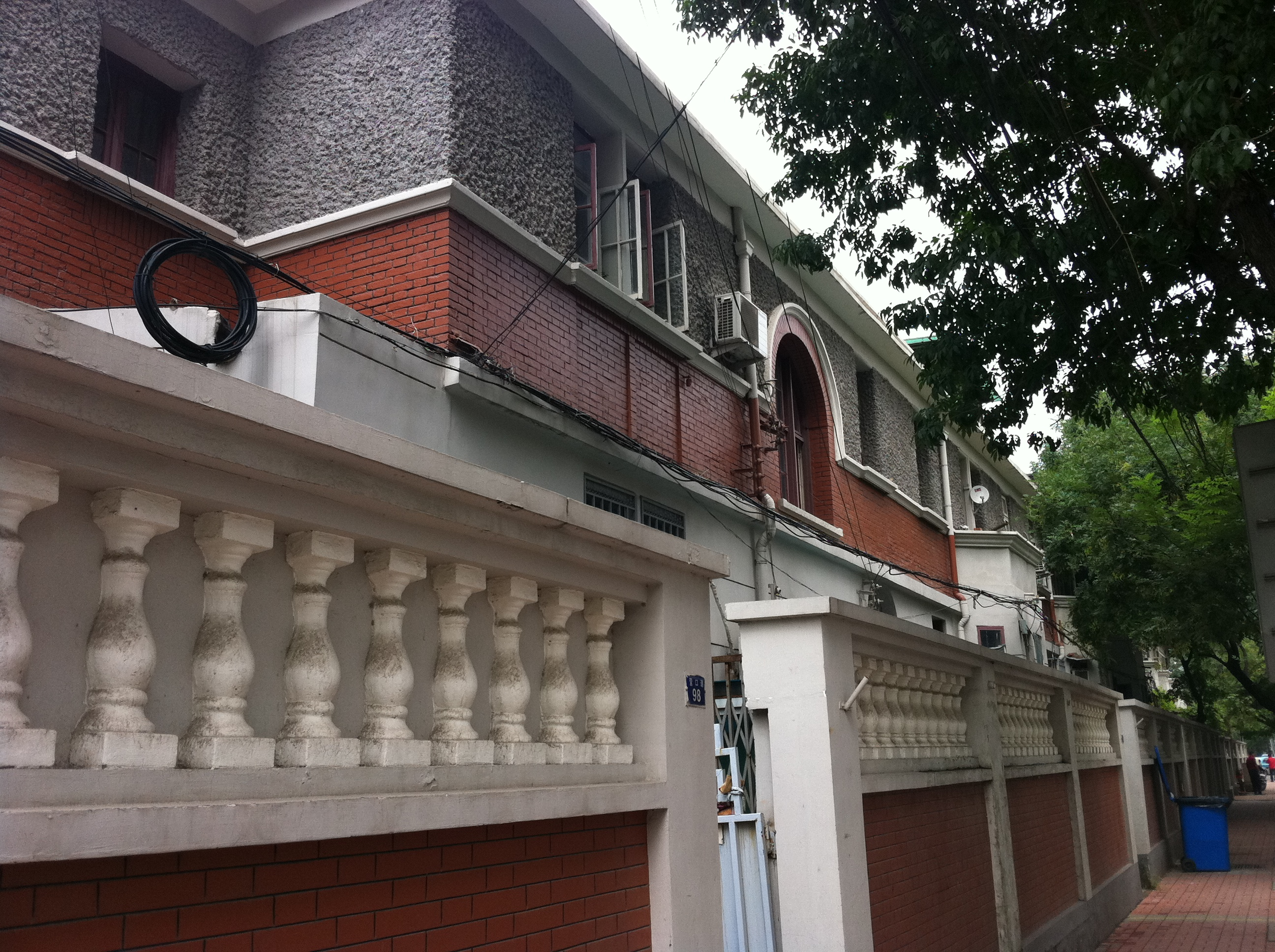 Yingkou Dao No. 92–98